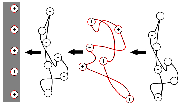 Simple figure demonstrating the layer-by-layer method of polyelectrolyte adsorption